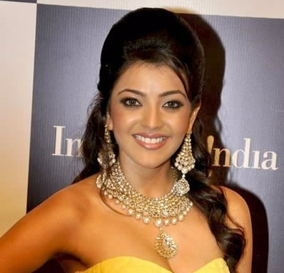 Kajal Aggarwal walks the ramp for CVM Exports at IIJW 2011